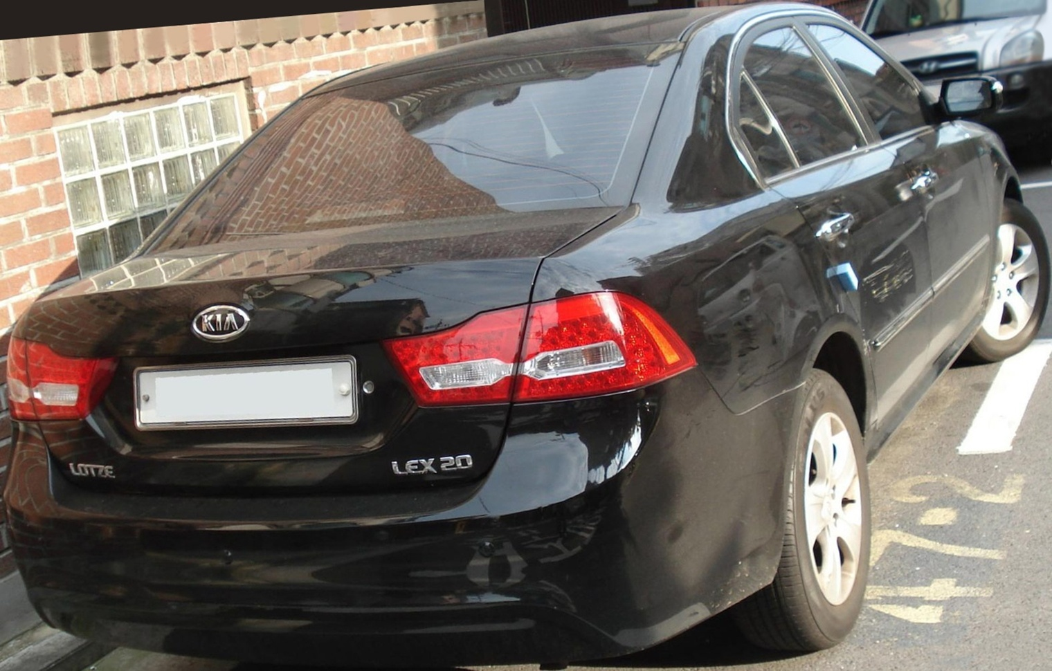 Kia Lotze Innovation